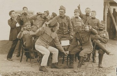 Austrian soldiers celebrating Easter in Ryahovo during World War I.